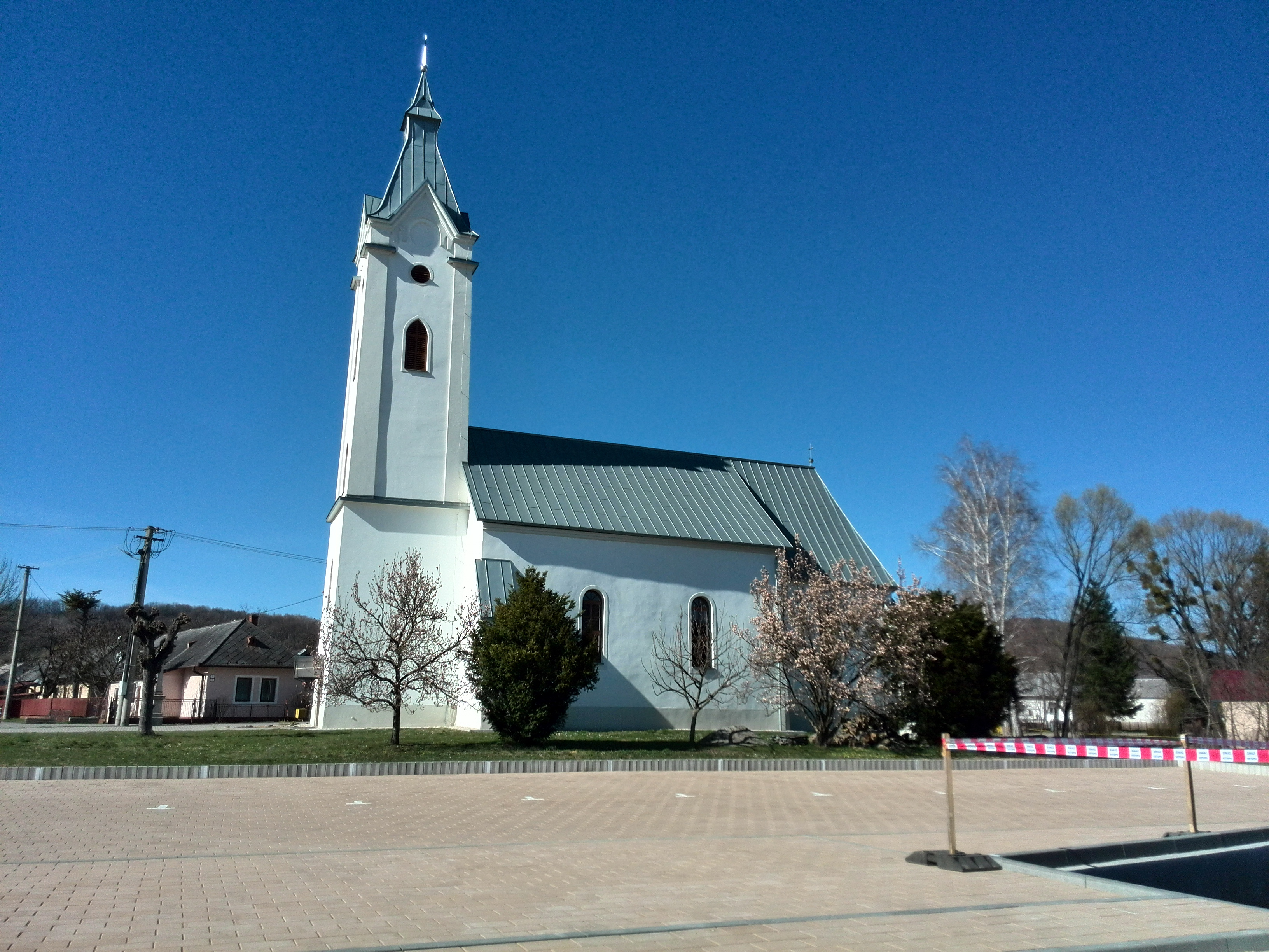 St. Anne church Dlhé nad Cirochou.